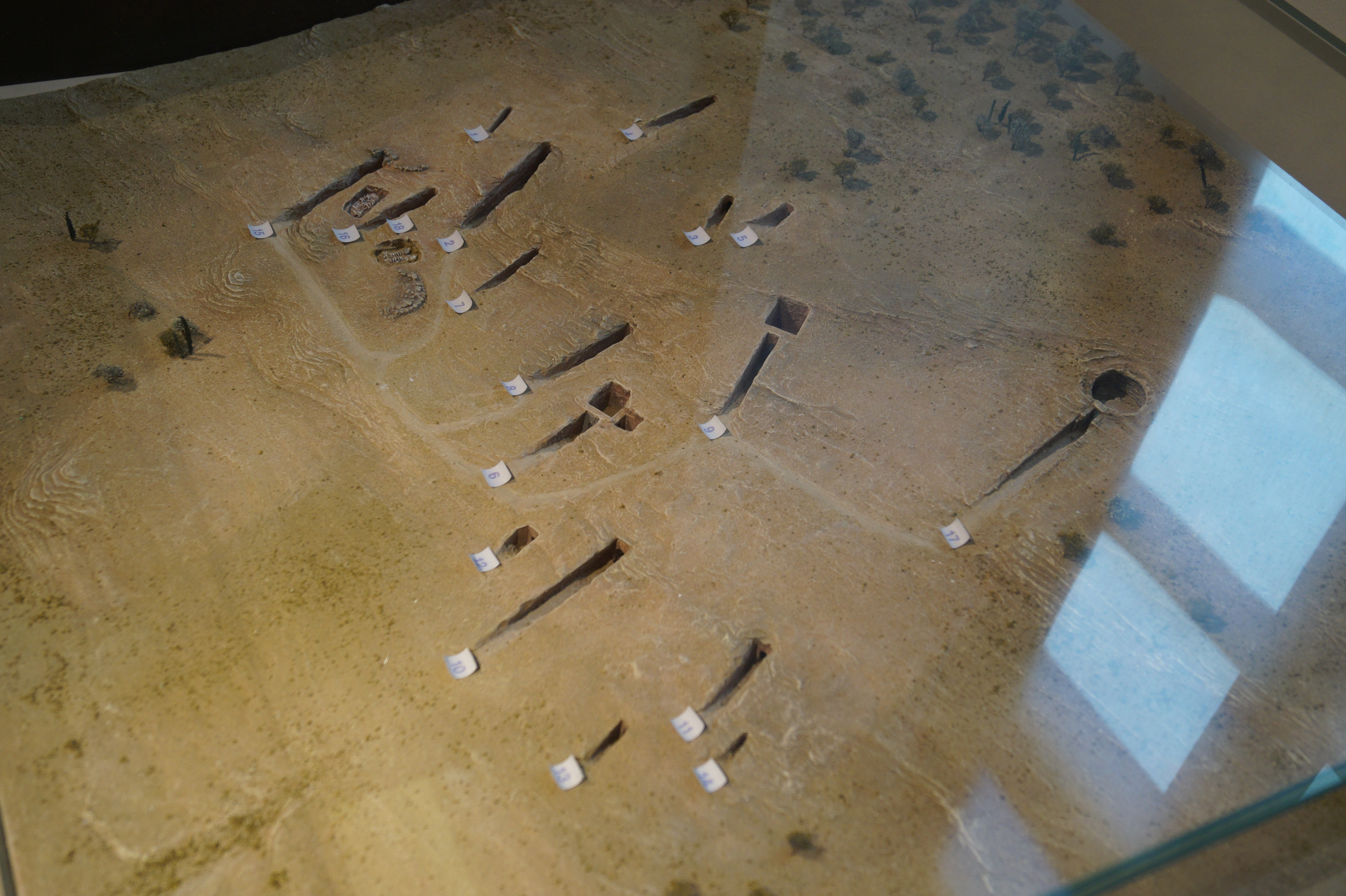 Archaeological Museum of Nafplio: Model of the archaelogical site of Dendra.